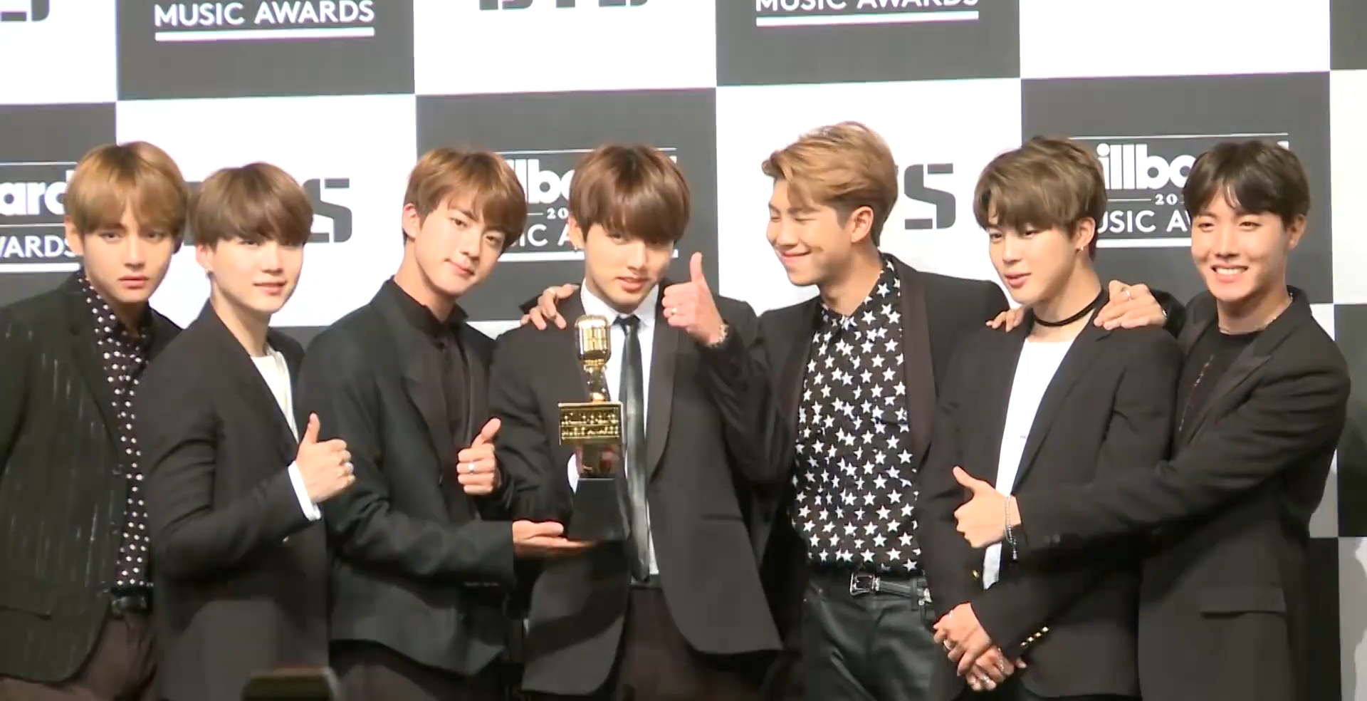 BTS at a press conference for the Billboard Music Awards on May 29, 2017